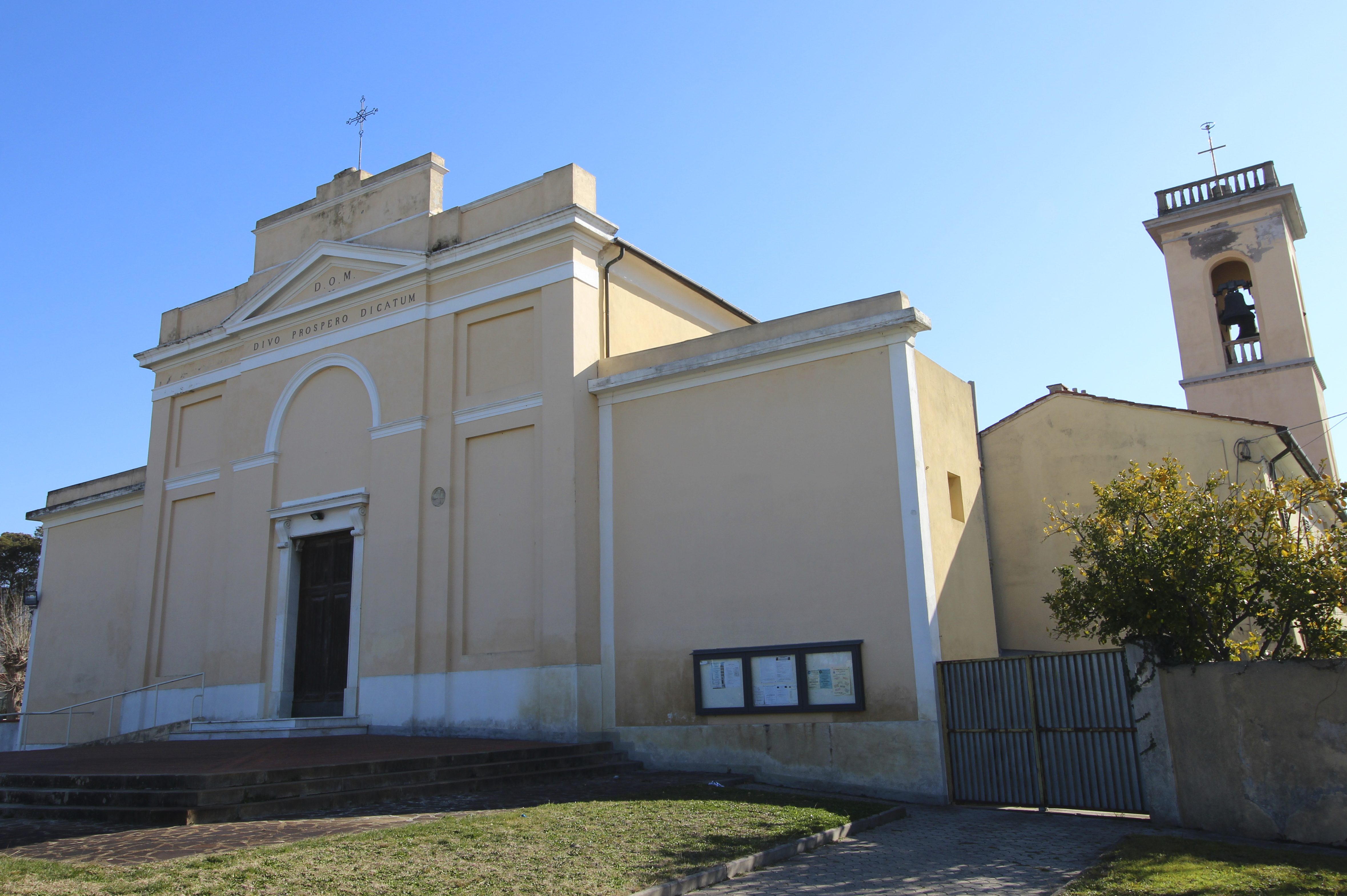 Church San Prospero (and Santa Caterina d'Alessandria), in San Prospero, hamlet of Cascina, Province of Pisa, Tuscany, Italy